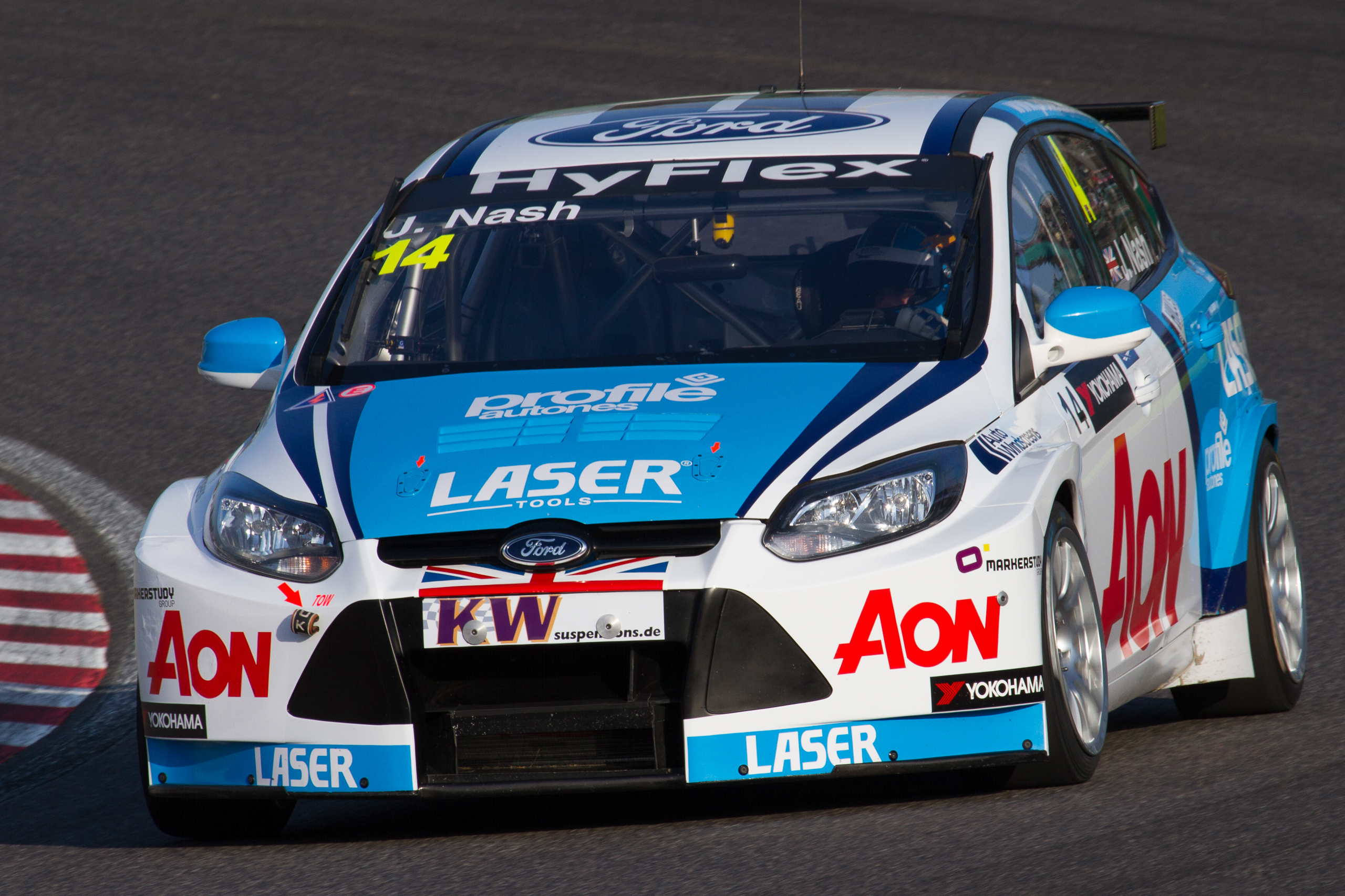 World Touring Car Championship 2012 Race of Japan: James Nash (Team Aon) driving the Ford Focus S2000 TC